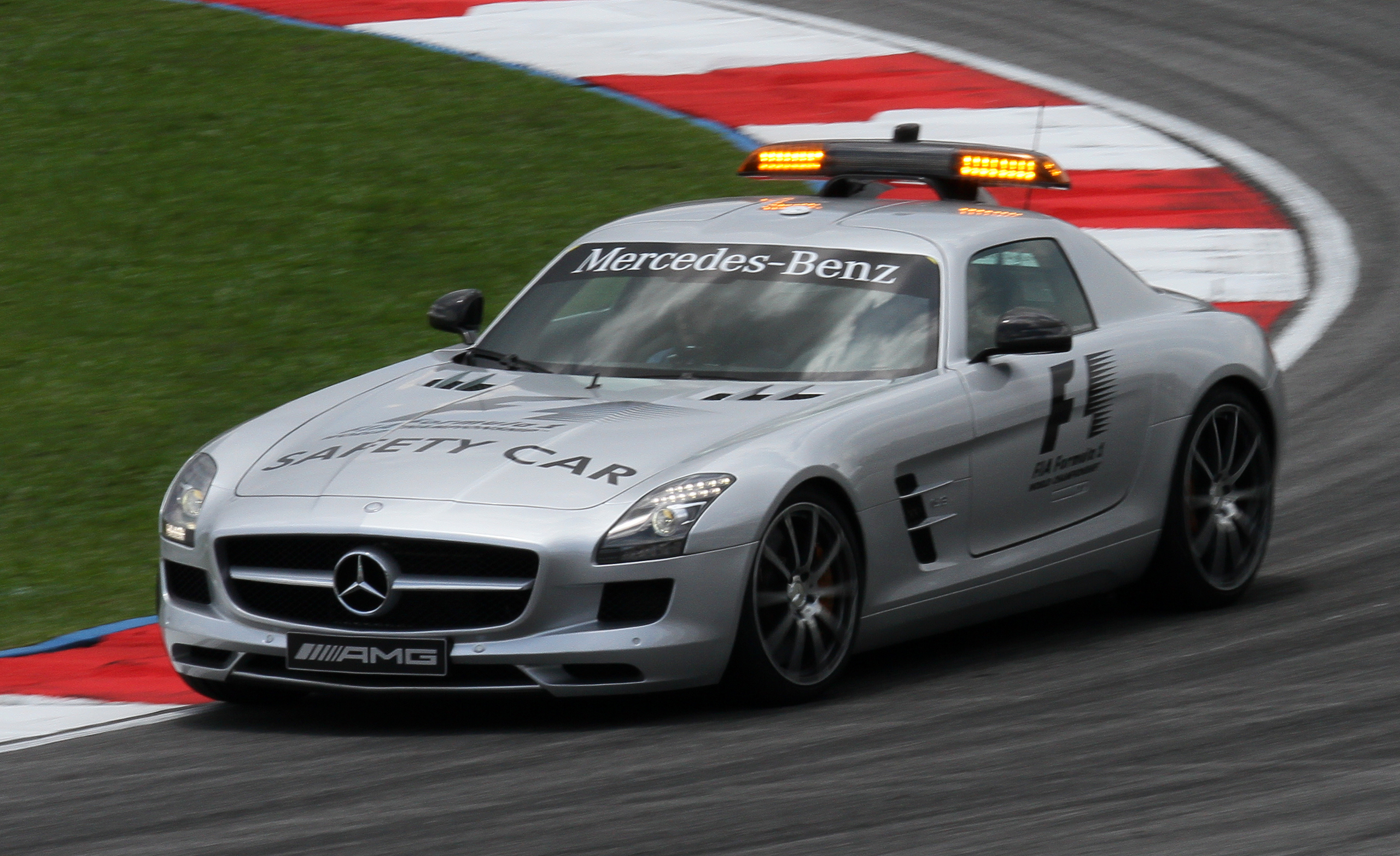 Formula One 2010 Rd.3 Malaysian GP: Mercedes-Benz SLS Formula One safety car